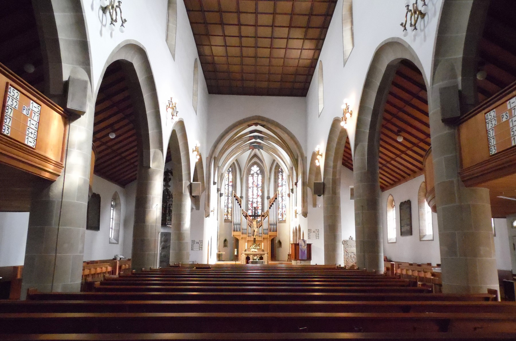 Church St. Martin in Neuffen, Germany, inside